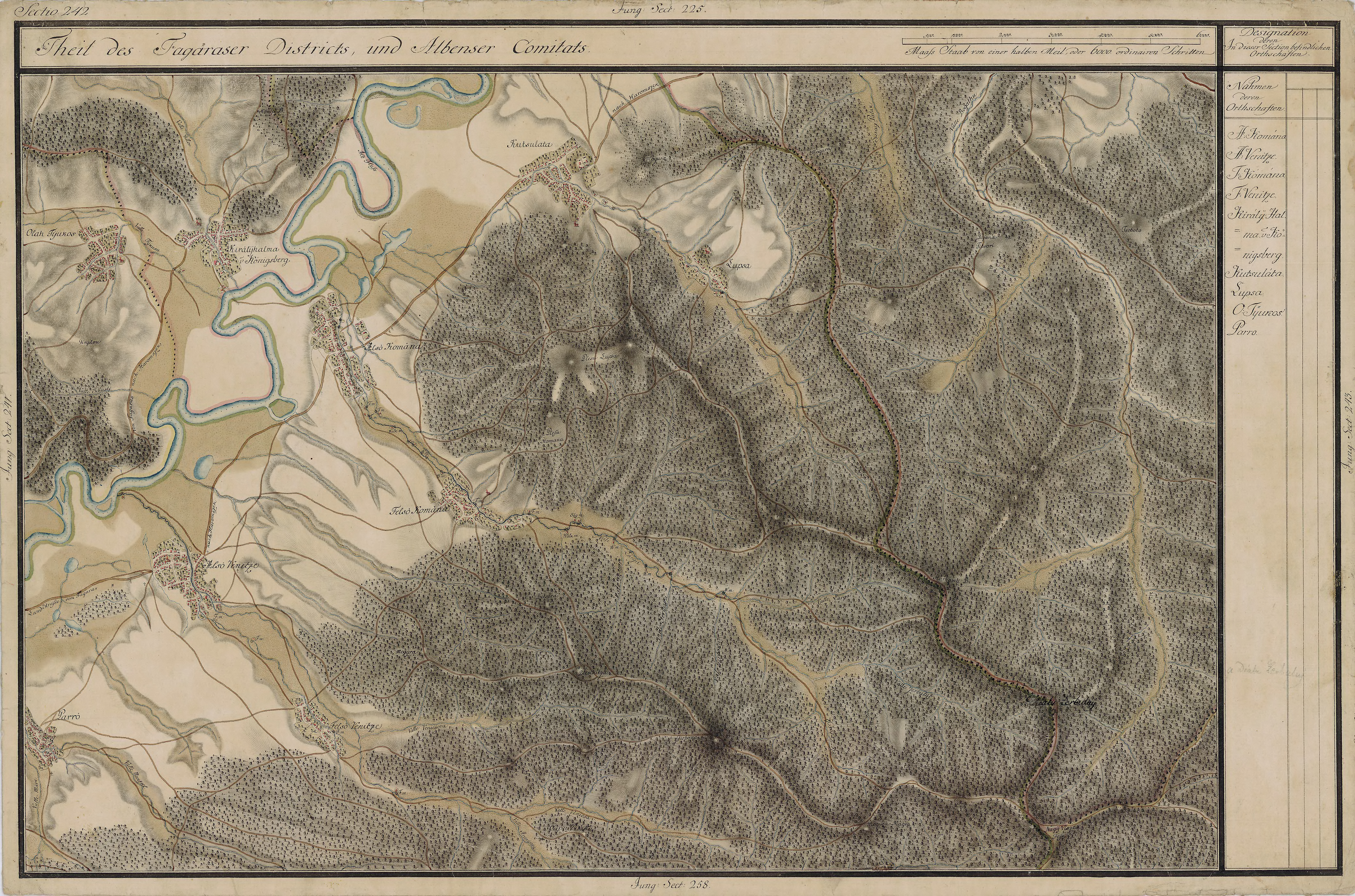 Grand Duchy of Transylvania, 1769-1773. Josephinische Landaufnahme pg.242